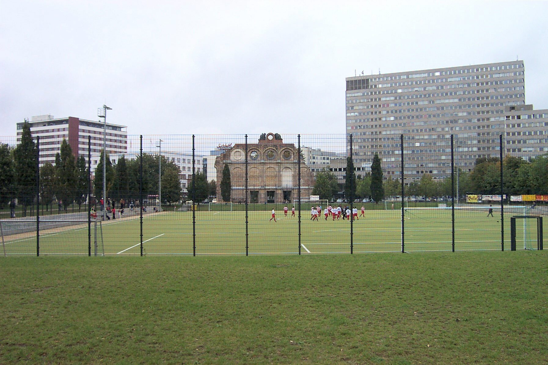 Berlin Anhalter Bahnhof - cladding from distance